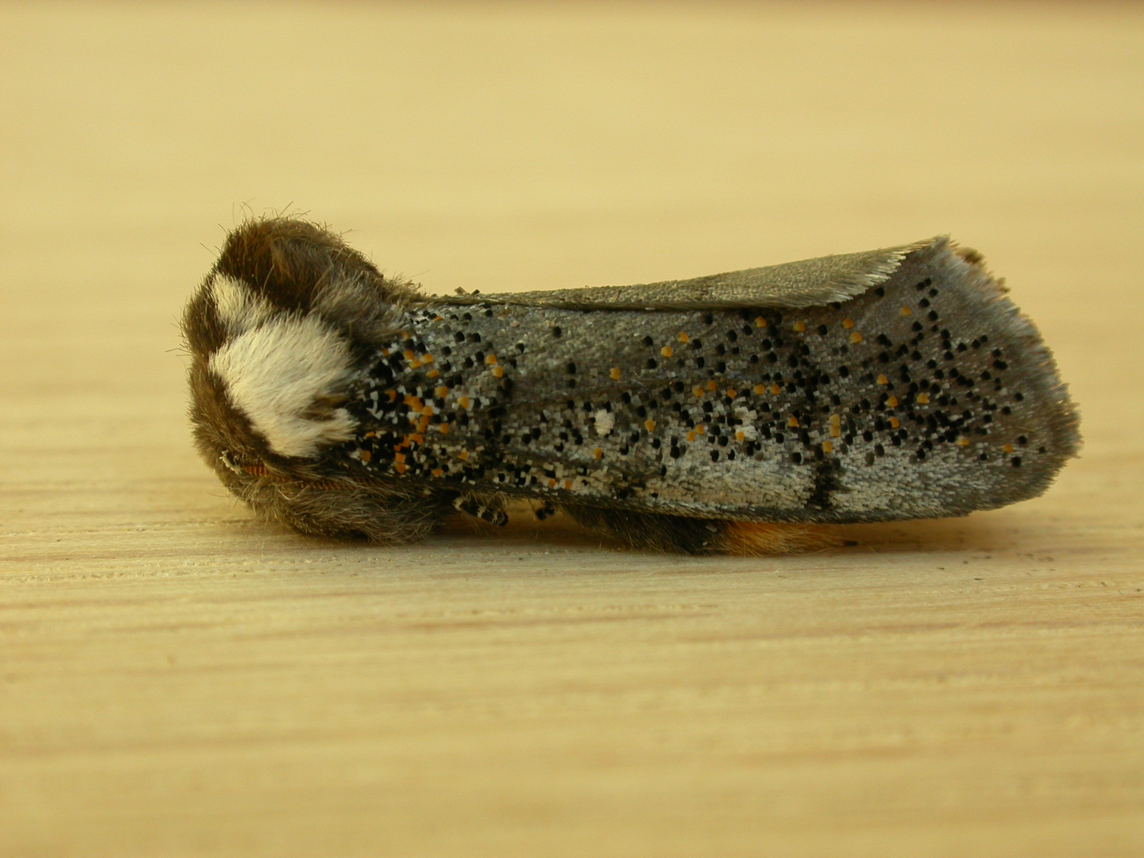 Oenosandra boisduvalii Newman, 1856, male, to MV light in Aranda, ACT, 28/29 March 2008